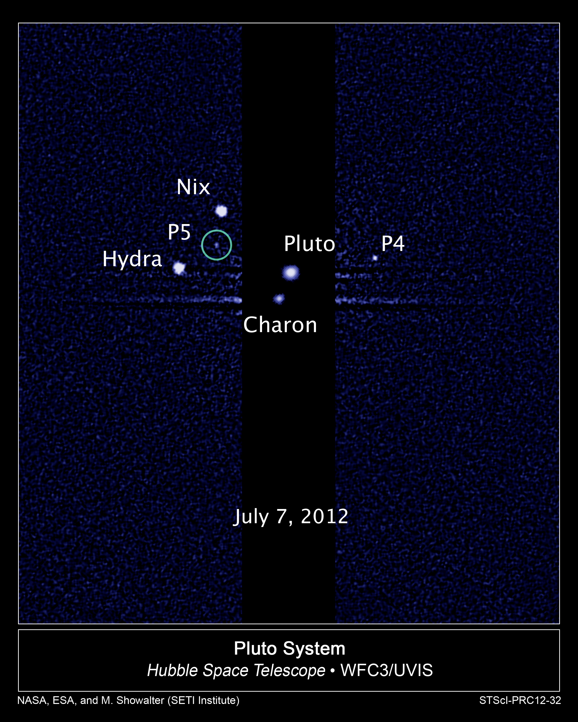 Most up to date image of the Pluto system, including Charon, Nix, Hydra, P4 and P5